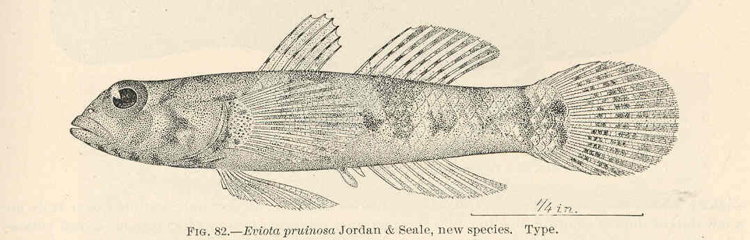 Eviota pruinosa Jordan & Seale, new species. (Valid as Palutrus pruinosa (Jordan & Seale 1906) Type Subject: Eviota Tag: Fish